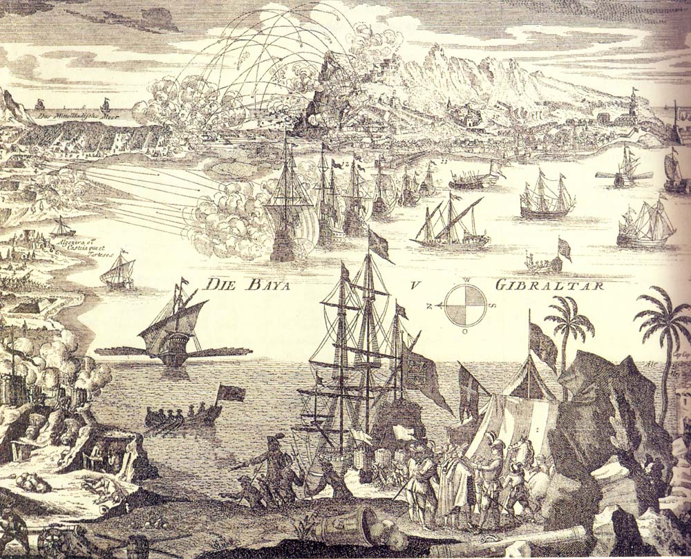 German print of the 1727 Gibraltar Siege.